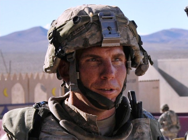 Staff Sgt. Robert Bales pictured at the National Training Center at Ft. Irwin, California, August 23, 2011